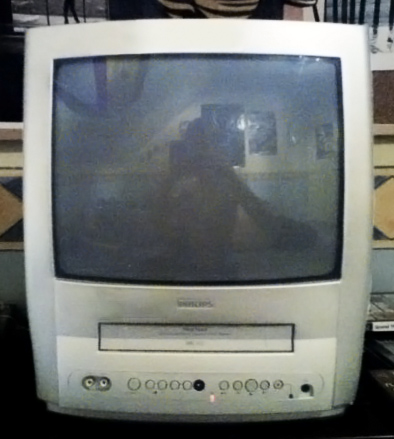 Image of a Philips television set